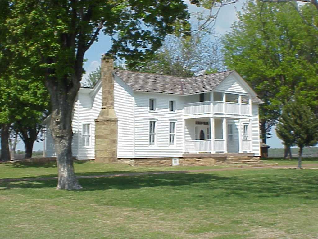 The main house at Dog Iron Ranch, the birthplace of Will Rogers